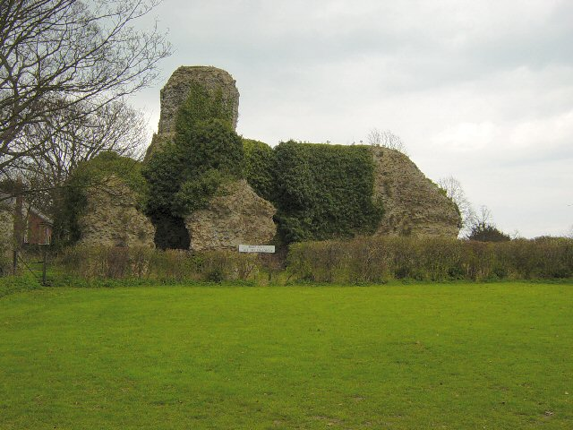 Walden Castle, Saffron walden Built sometime between 1125 and 1141 little remains today except the flint walls of the keep.